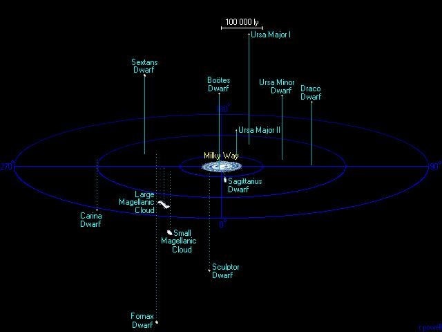 Map of the Milky Way and Satellite Galaxies